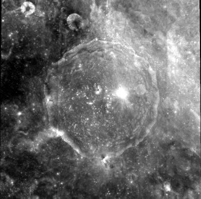 Lobachevskiy lunar crater Clementine image